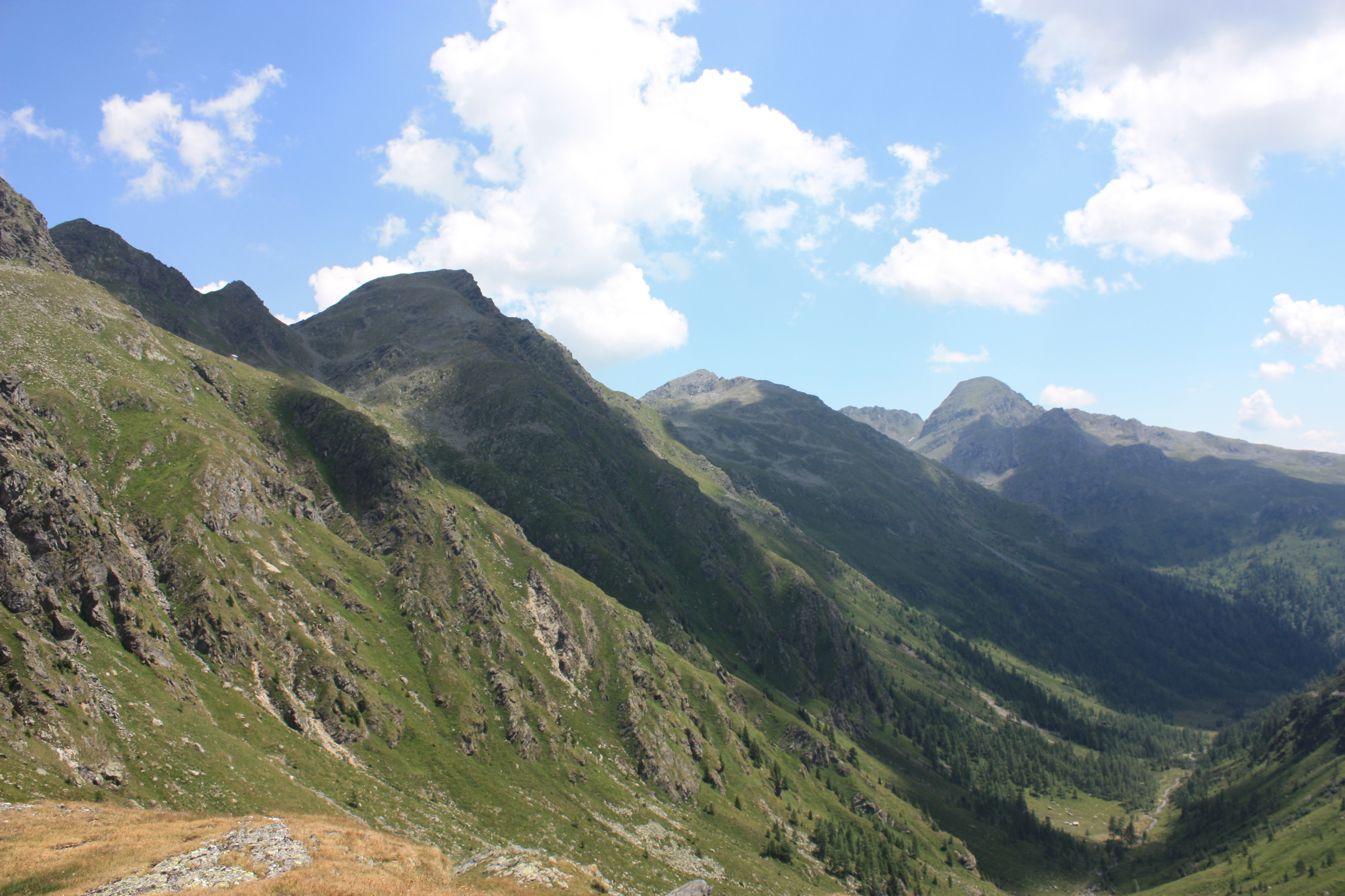 Oberdraßnitzer Alm Locality: Oberdraßnitzer Alm Community:Dellach im Drautal